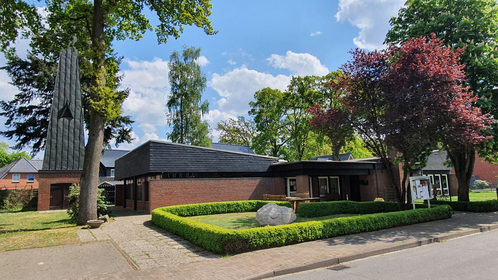 Maria-Magdalena-Church Heidenau